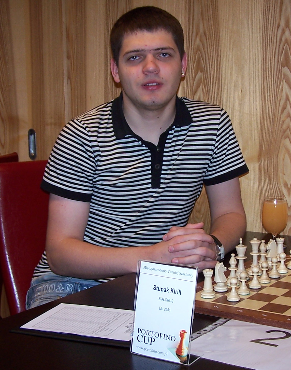 IM Kirill Stupak (Belarus), Włocławek 2009